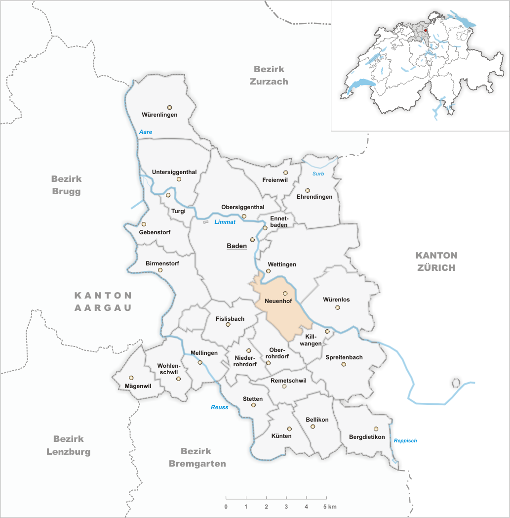 Municipality Neuenhof